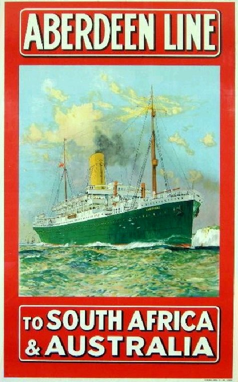 Charles Dixon (1872-1934) Aberdeen Line To South Africa & Australia 1927, original poster printed by Howard & Jones Ltd - 100 x 61 cm